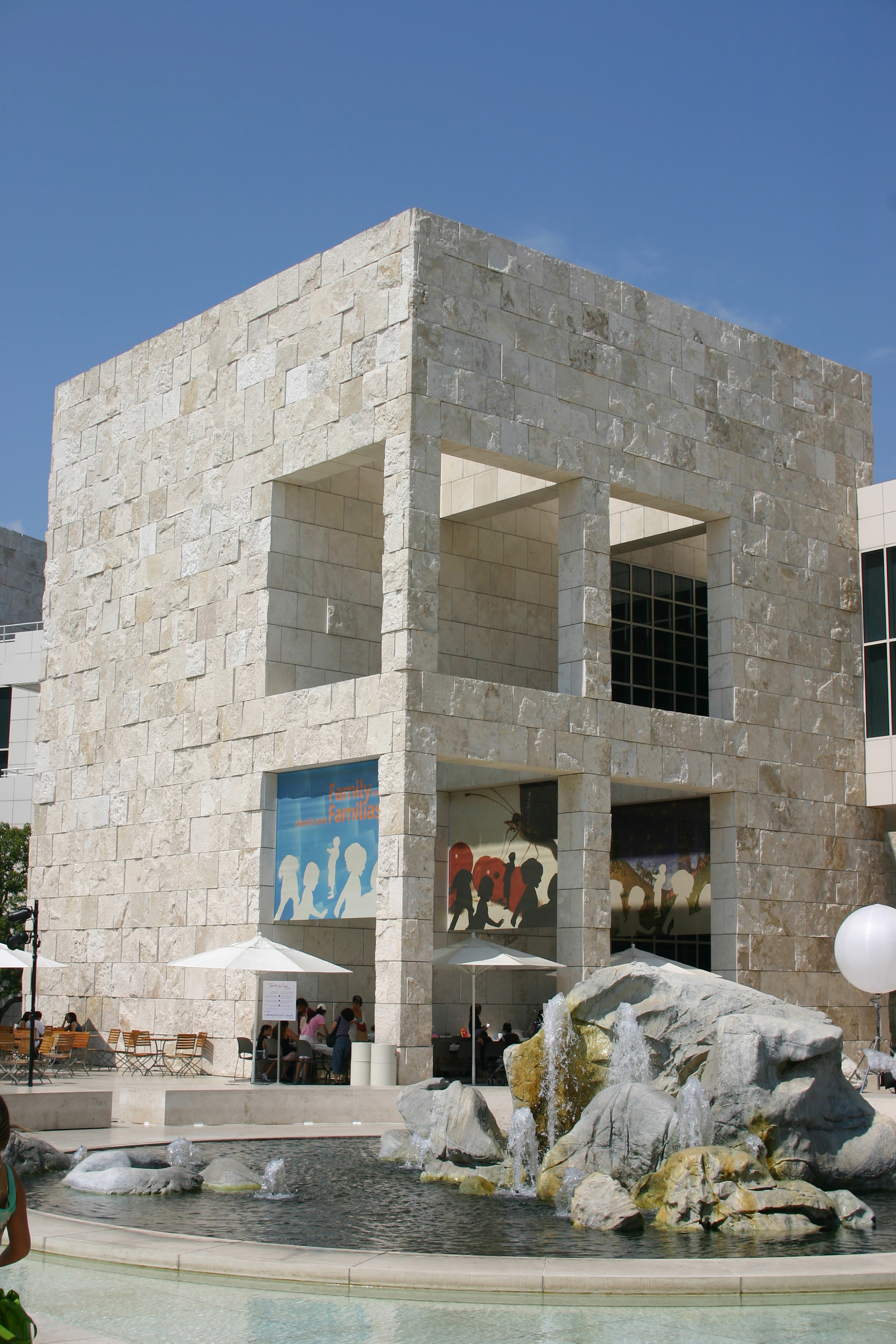 Getty Center in Los Angeles, California on July 18 2008